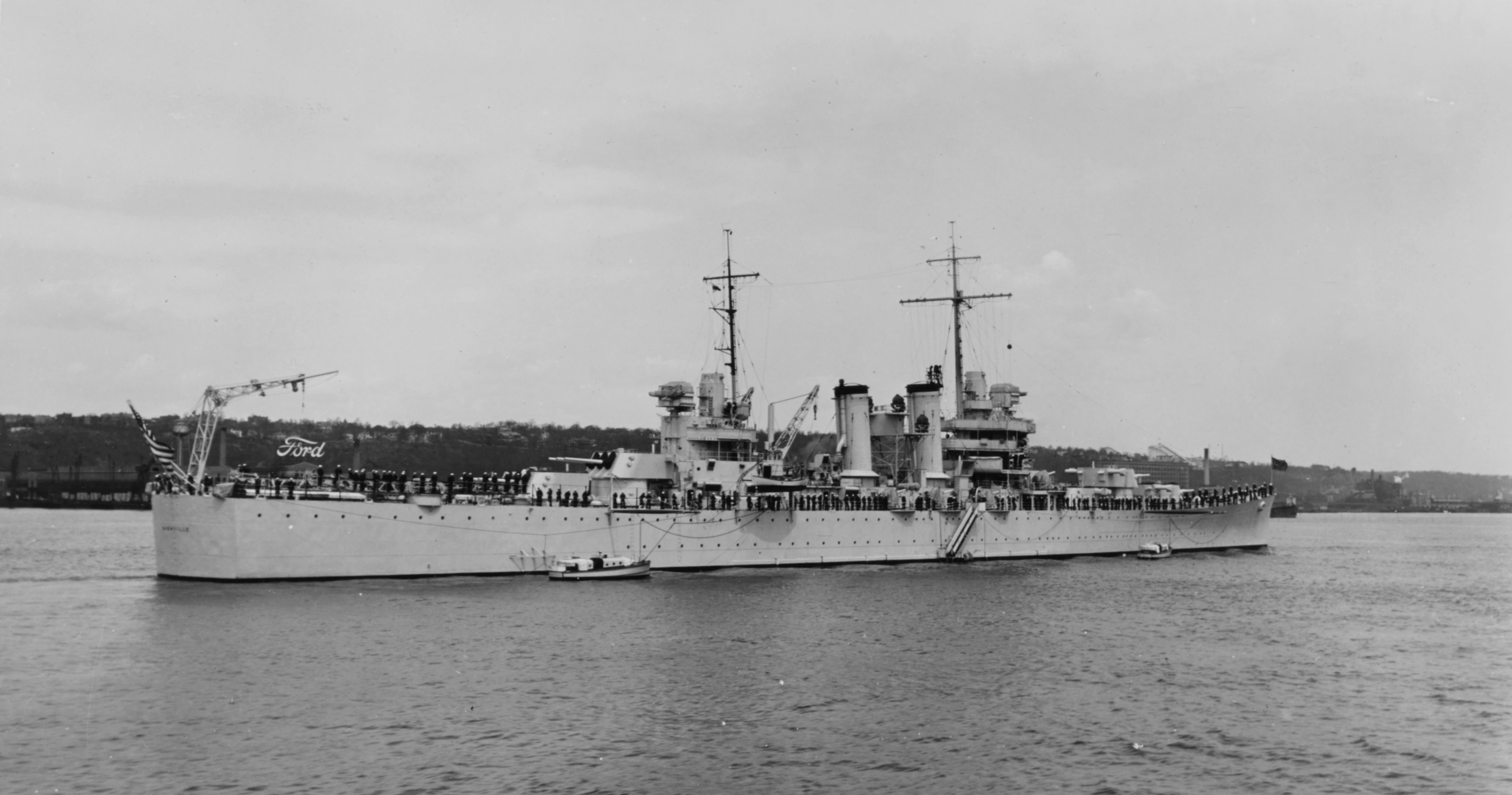 The U.S. Navy light cruiser USS Nashville (CL-43) in the Hudson River, off New York City (USA), in 1939. The Palisade Amusement Park is in the right distance.